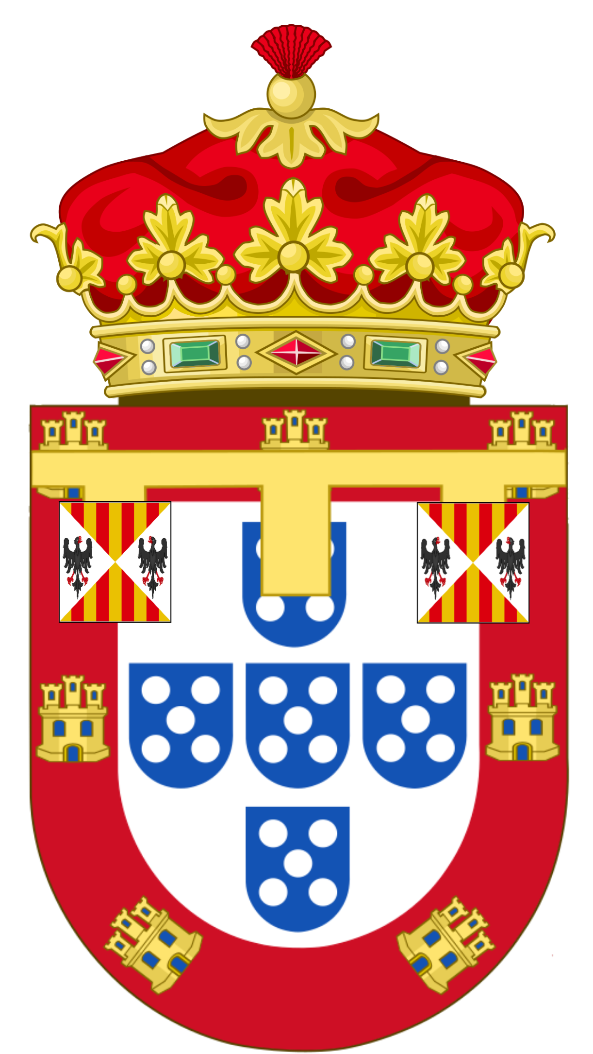 Arms of the future King of Portugal, Manuel I, still as Duke of Beja. Made by JSobral